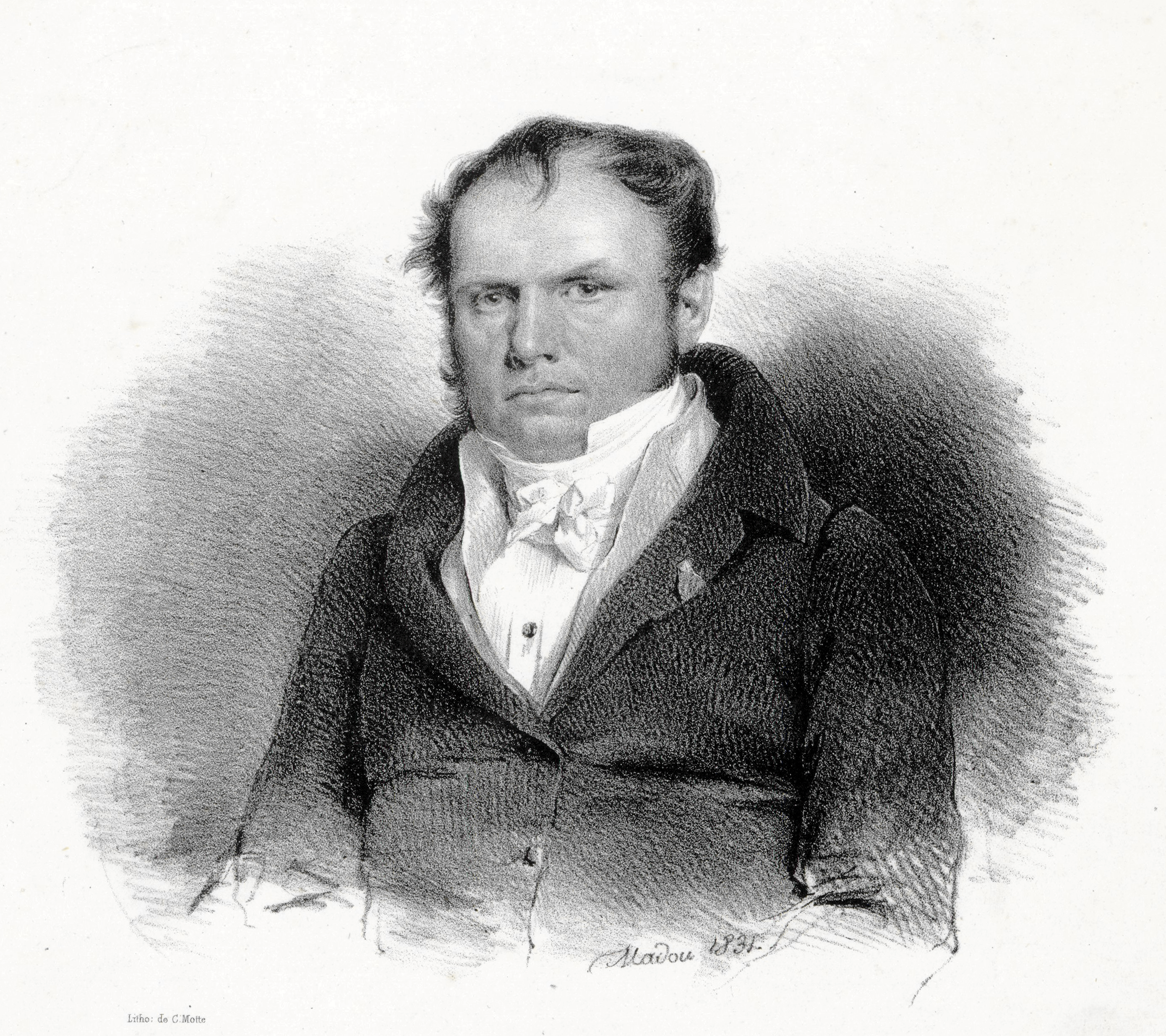 Lithograph of François-Joseph Fétis by Jean-Baptiste Madou.